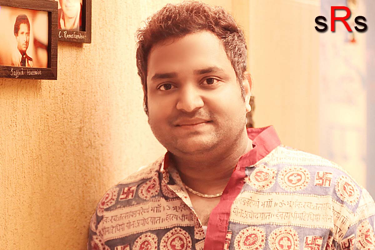 Sanjib Sarkar at LM studio Mumbai during the song recording with legend Kavita Krishnamurti